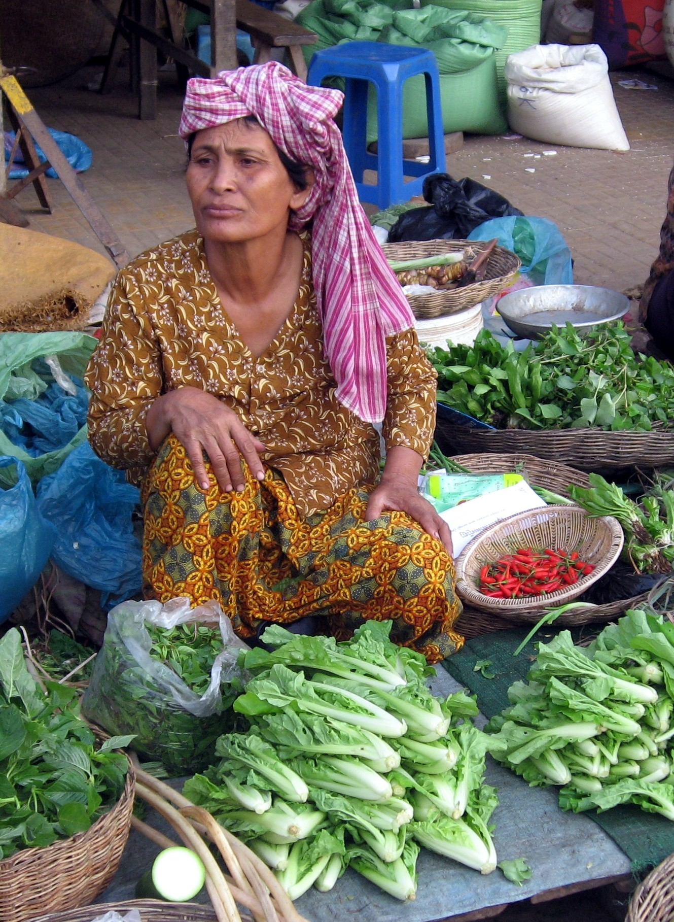 Market woman with Krama in Kampong Thom, Cambodia